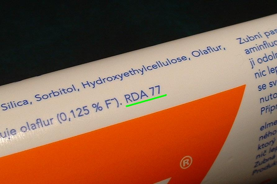 Abrasiveness of toothpaste is measured by its Relative Dentin Abrasivity (RDA).